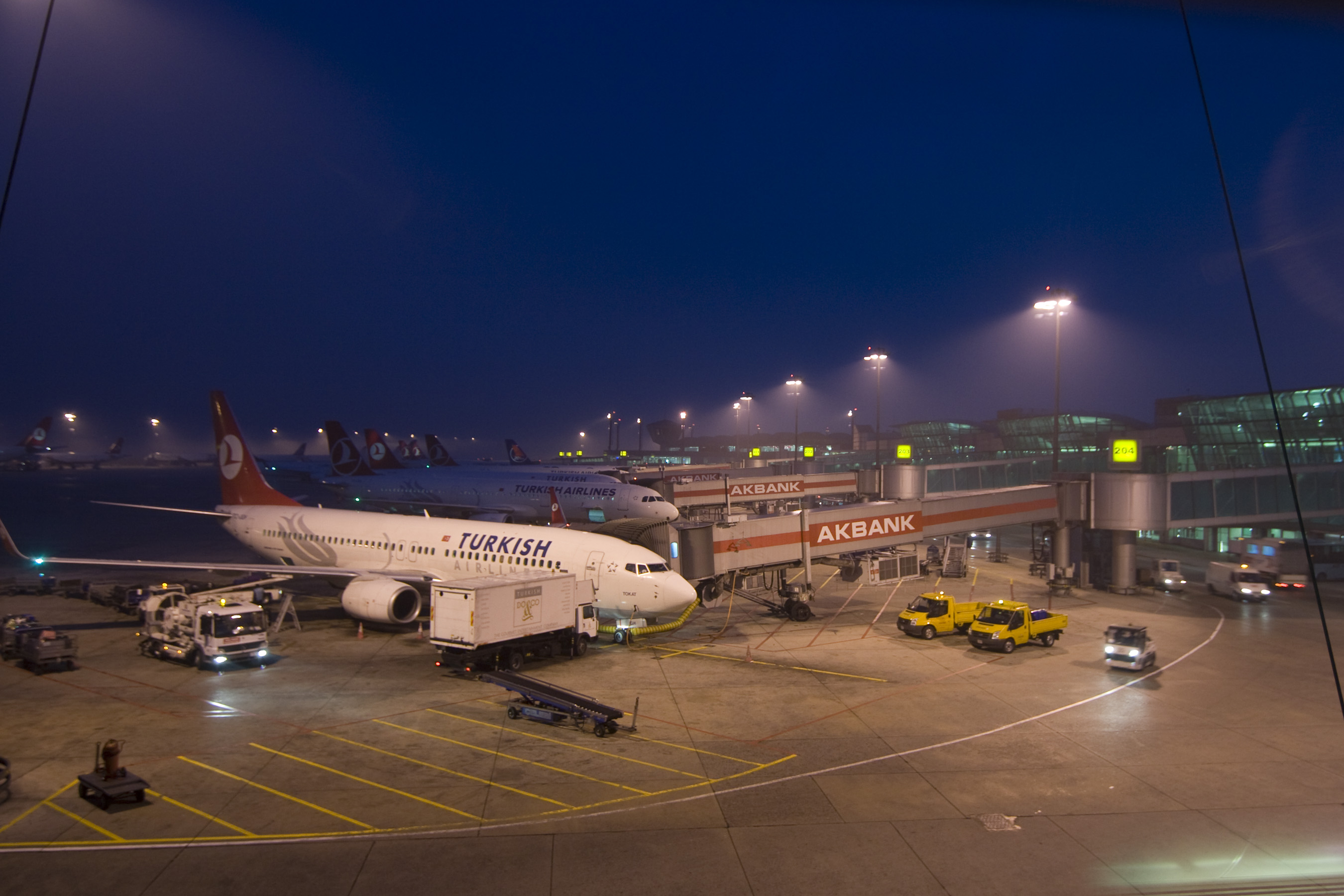 Atatürk International Airport